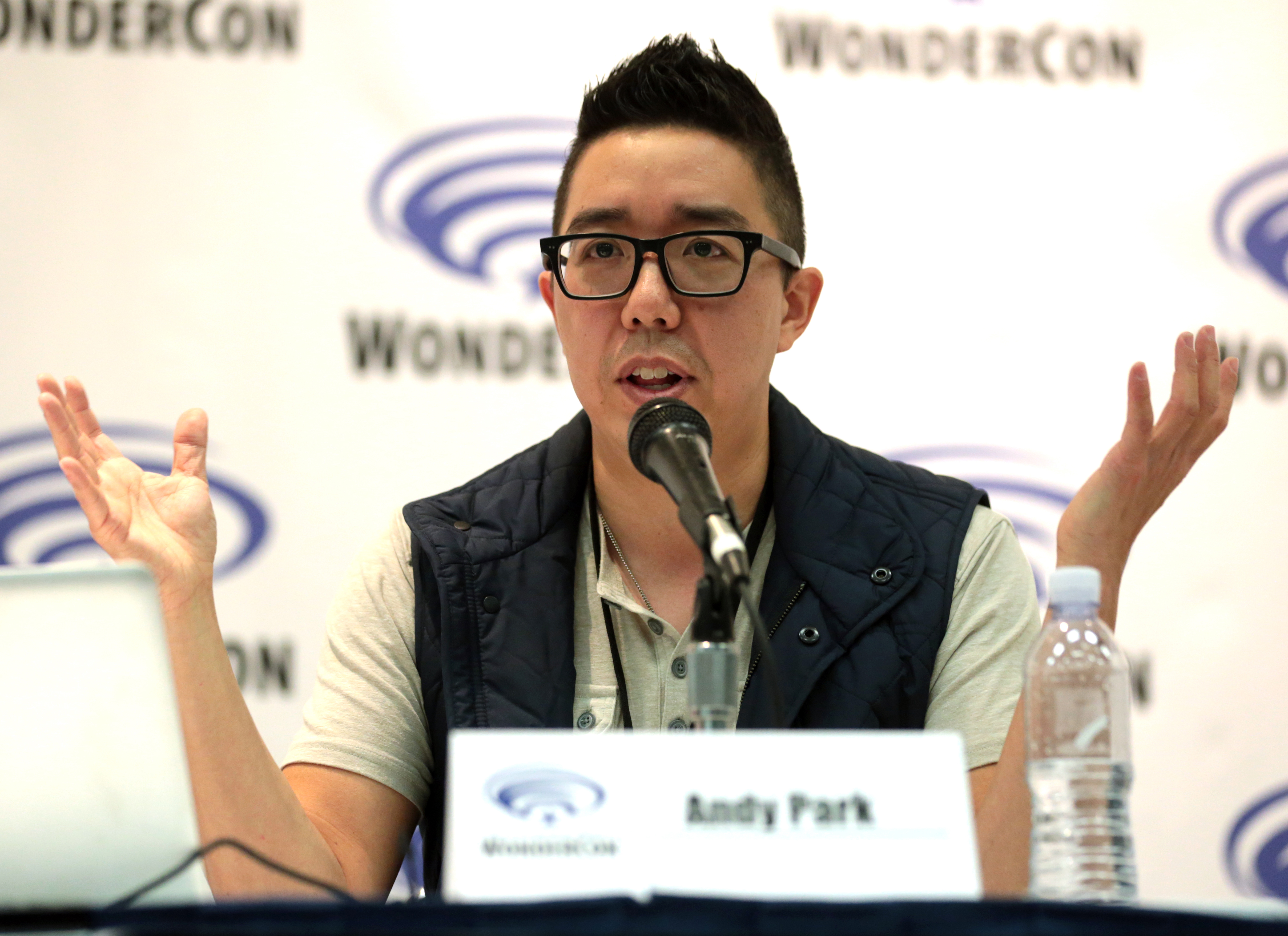 Andy Park speaking at the 2017 WonderCon in Anaheim, California.